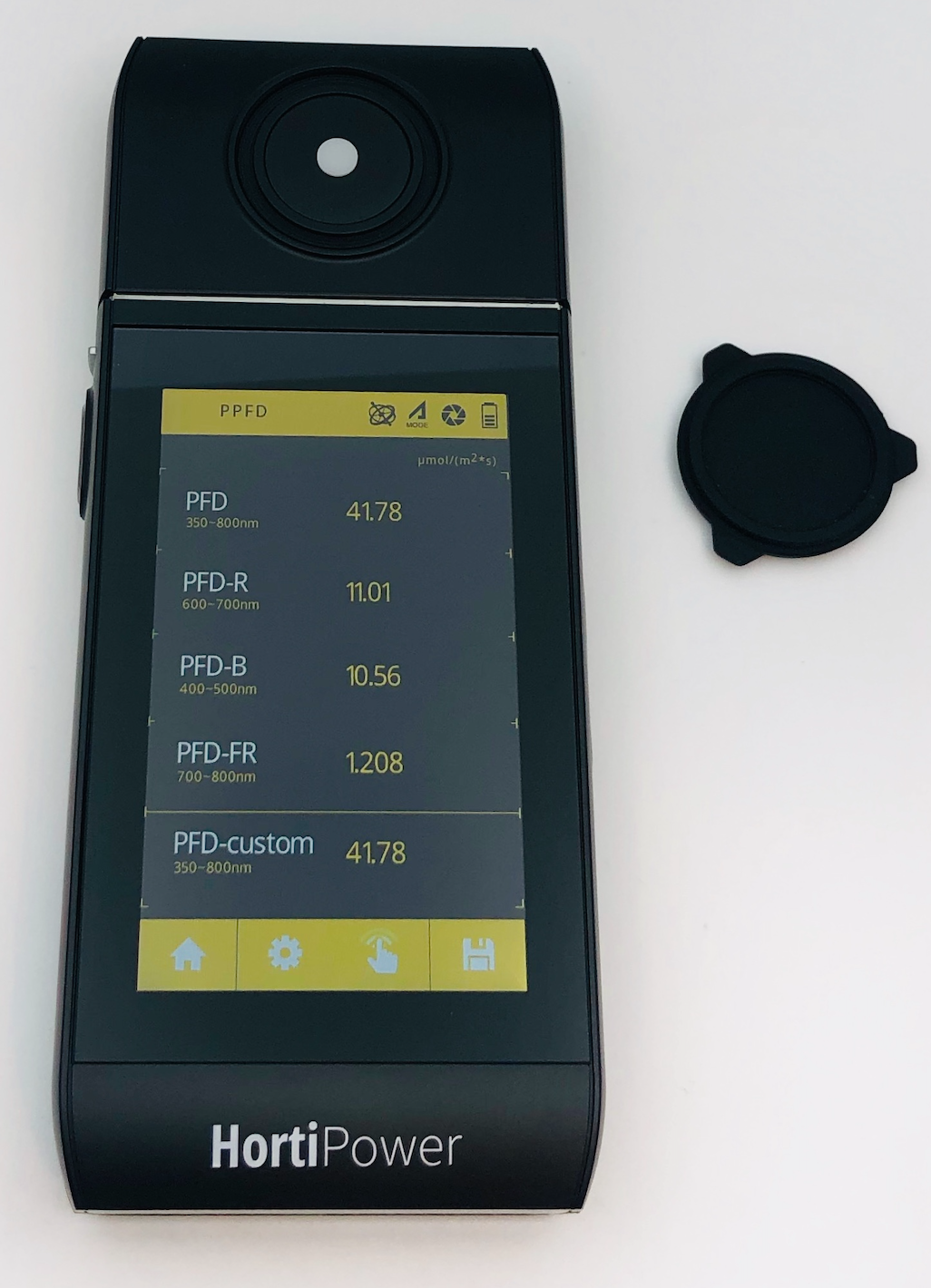 HortiPower Smart Spectrum Meter to measure PFD (Photosynthetic Photon Flux Density)